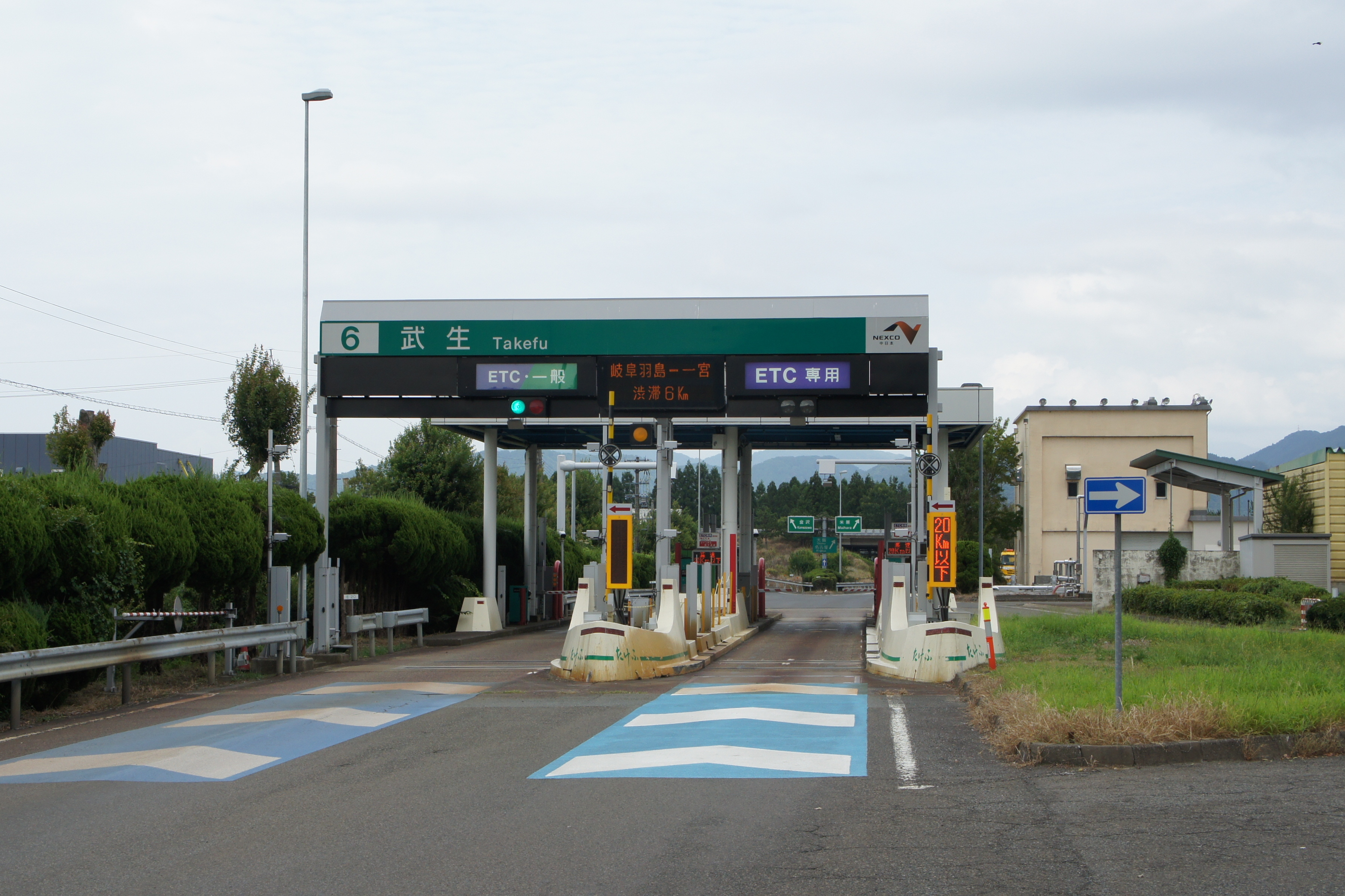 Takefu Interchange in Echizen City, Fukui Prefecture, Japan